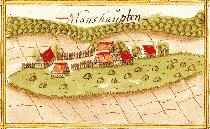 View of Mannshaupten, Schornbach, Schorndorf, from the forest register books created by Andreas Kieser